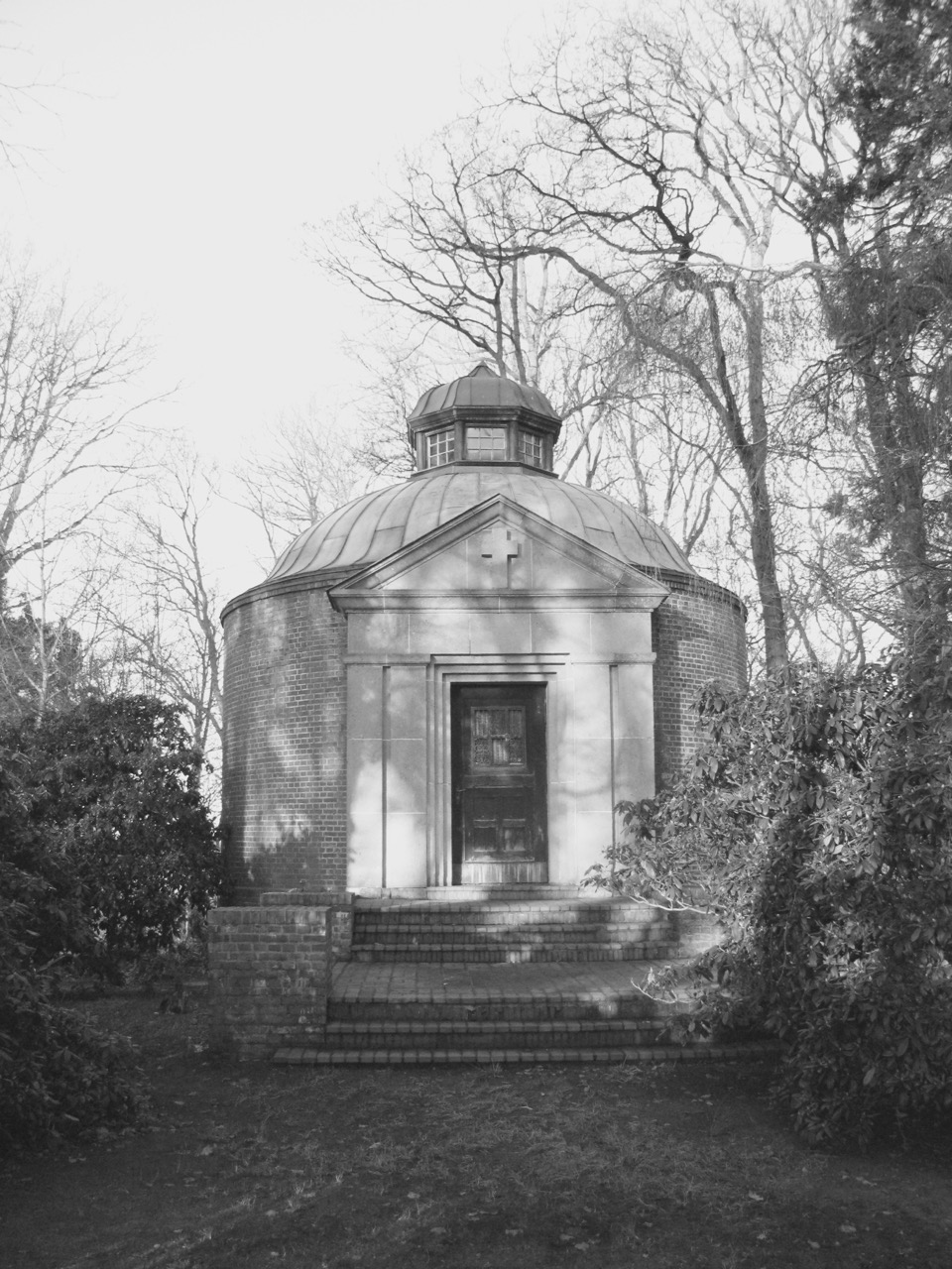 Mausoleum Familie Ficke, Gut Wittenborgh, Driftsethe. Es wurde etwa. 1889 von der Familie Ficke erbaut , nachher erben v.d. Elst und befindet sich heute im Eigentum der Familie v. Wurmb